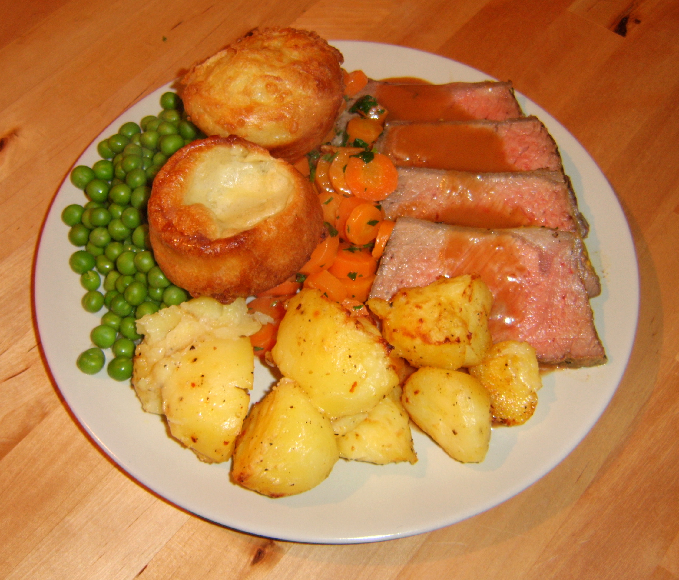 Roast beef with Yorkshire puddings, roast potatoes and vegetables